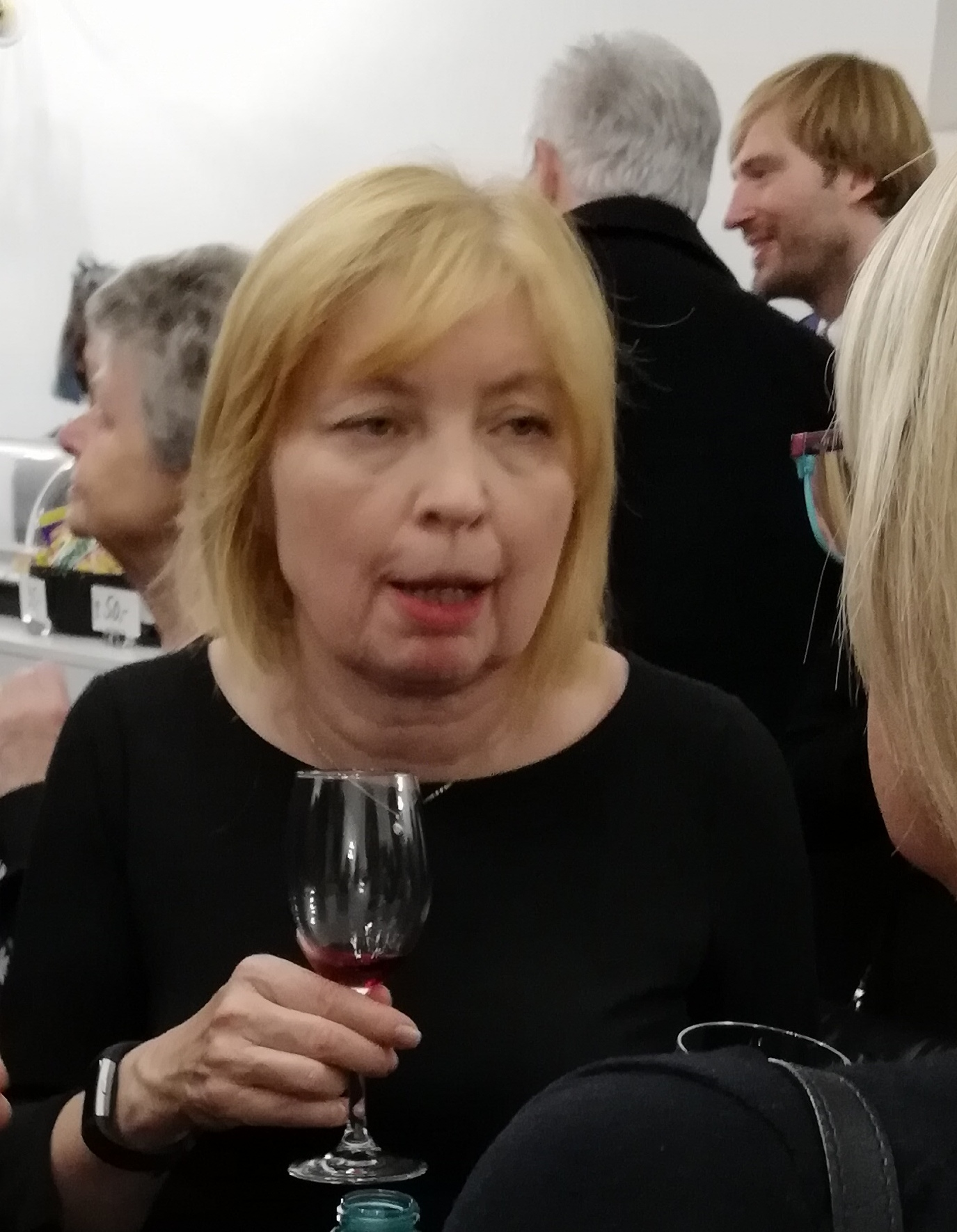 Prof. MUDr. Petra Tesařová, CSc. (* January 4, 1961, Trutnov, Czechoslovakia) is a Czech clinical oncologist and hematologist. In oncology practice, she focuses on young patients (younger then 35) with breast cancer. On the photo she is captured during the break of the benefit concert of Štefan Margita held on October 29, 2019 in the Church of St. Simon and Jude in Prague, Czech Republic. In the background there is a side face (profile) photo of the Minister of Health of the Czech Republic Mgr. et Mgr. Adam Vojtech, MHA.